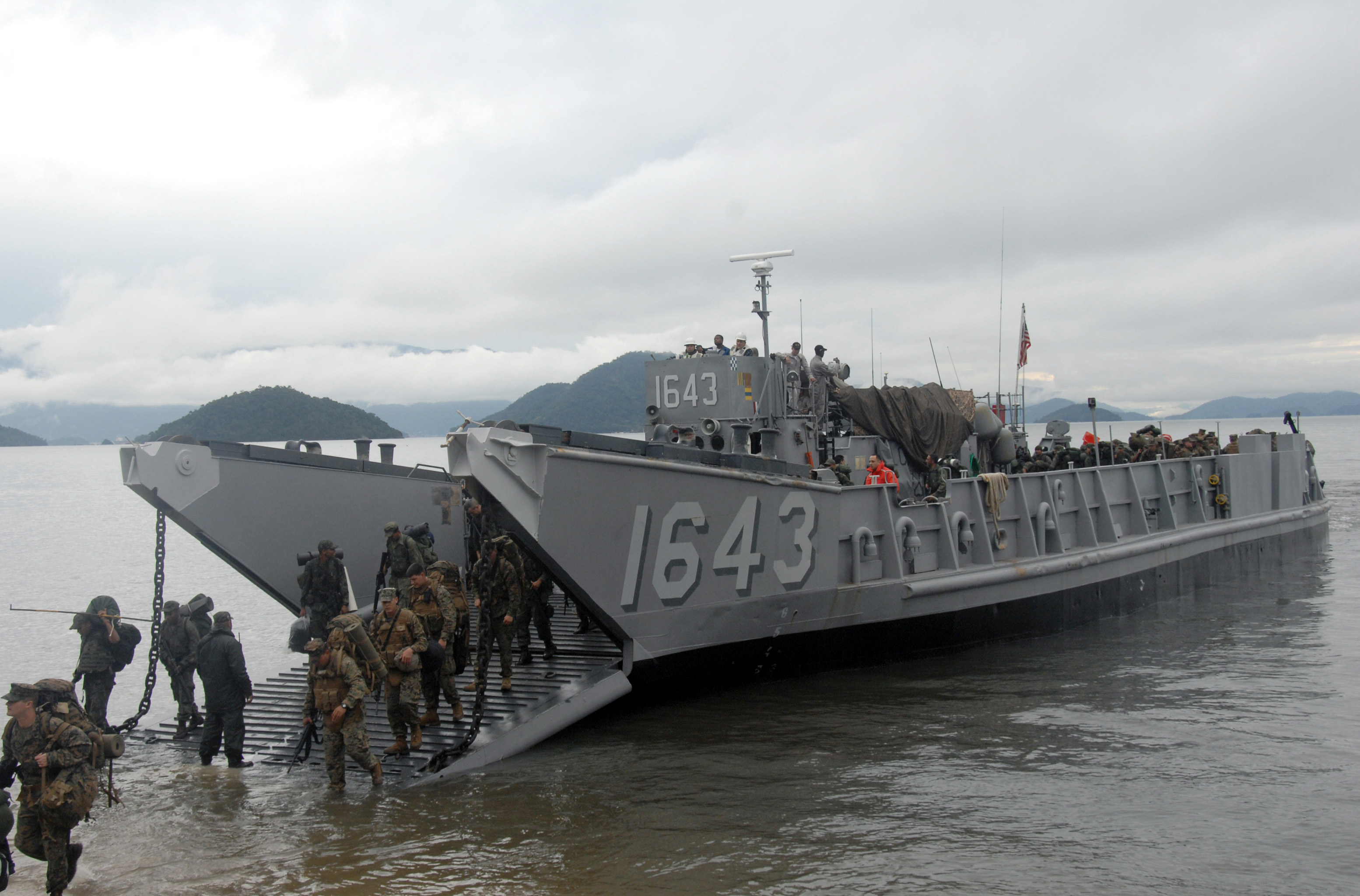 MARAMBAIA ISLAND, Brazil (July 25, 2009) Marines from the U.S., Brazil, Uruguay, Argentina, Chile and Peru disembark Landing Craft Unit 1643, from Assault Craft Unit (ACU) 2 based in Little Creek, Va., during the U.S. Marine Corps Forces South multinational amphibious exercise Southern Exchange 2009. (U.S Army photo by Spc. Michael Loggins/Released)